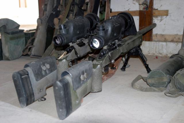 Two 7.62mm FN A2 Special Purpose Rifles (SPR) equipped with AN/PSV-10 Day+Night Vision Sniper Scopes, sit inside the armory for the US Marine Corps (USMC) Marines assigned to the Scout/Snipers of 3rd Battalion, 23rd Marine Regiment (3/23) at Blair Field in Al Kut, Iraq, during Operation IRAQI FREEDOM.